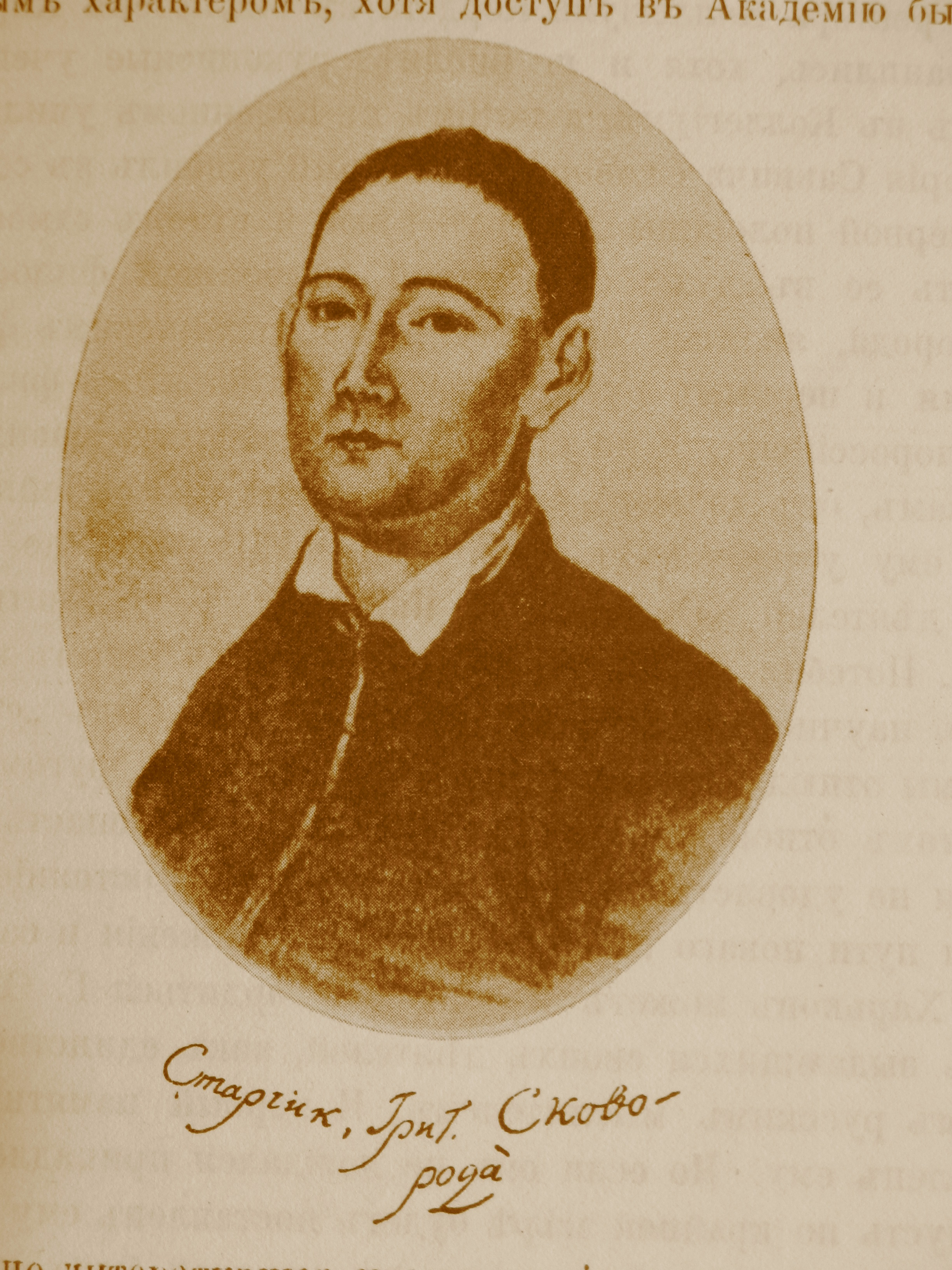 Grigory Savvich Skovoroda